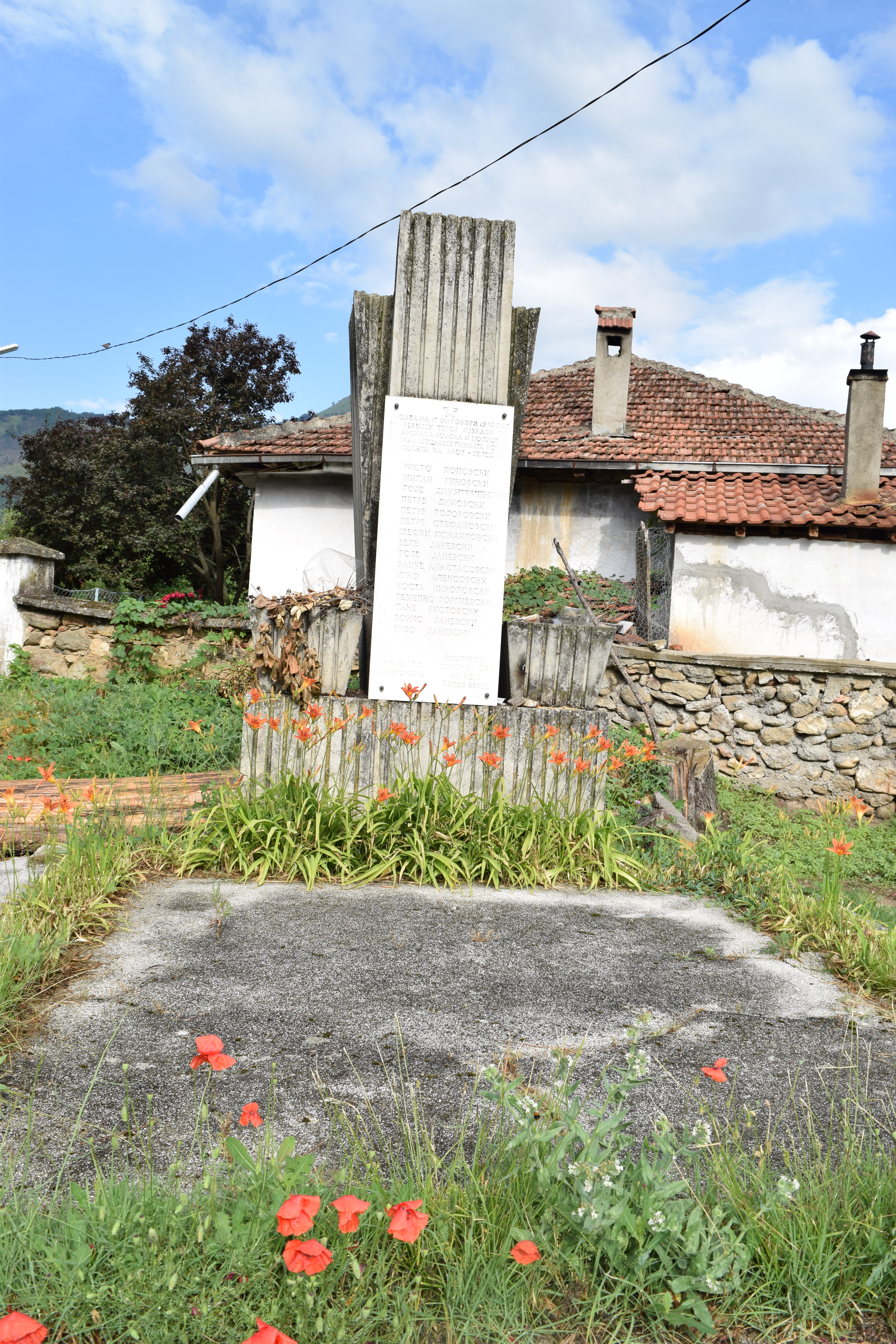 Monument on local cemeteries in Bogomila